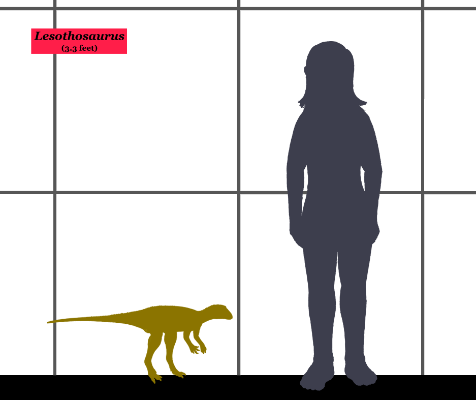 Size comparison between the Ornithischian dinosaur Lesothosaurus and a human.